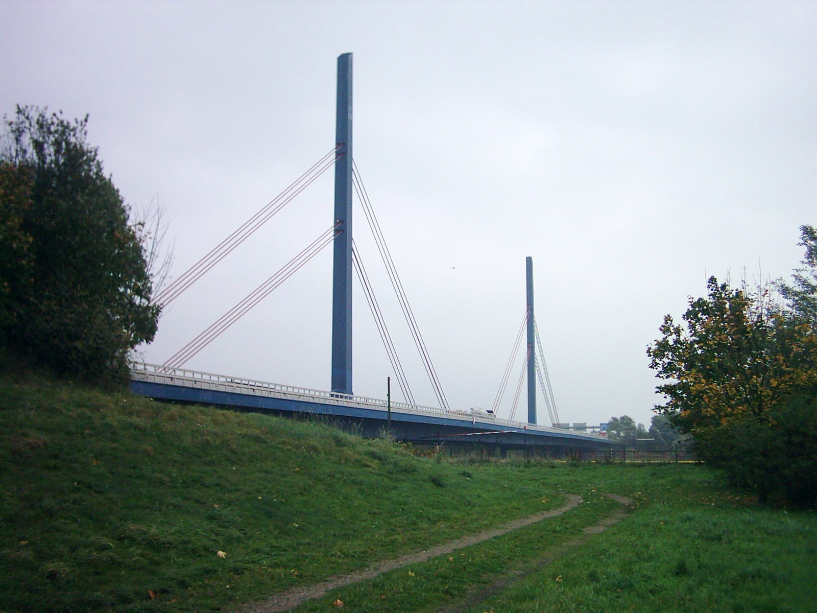 Norderelbbrücke, Hamburg, Germany.